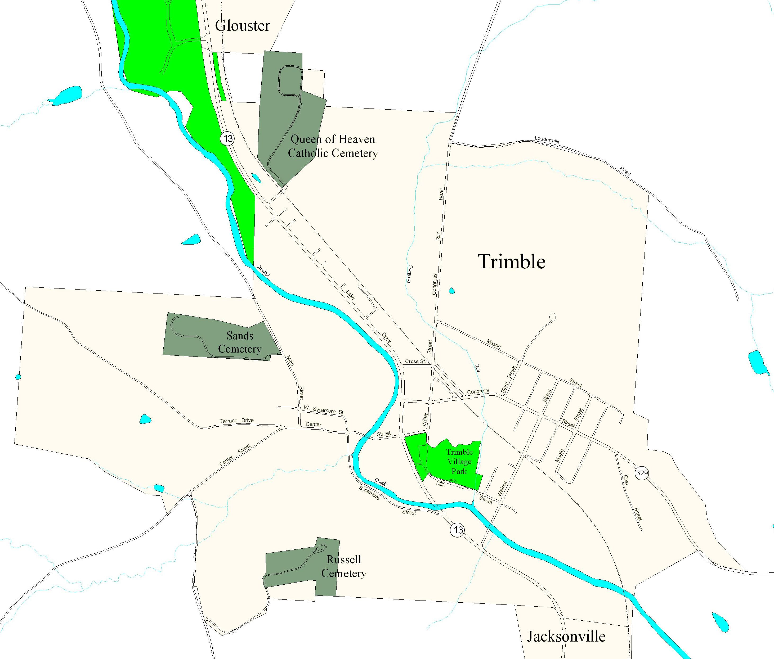 Political map of Trimble, an incorporated village in Trimble Township, Athens County, Ohio, United States of America; created with ArcView GIS 3.3.